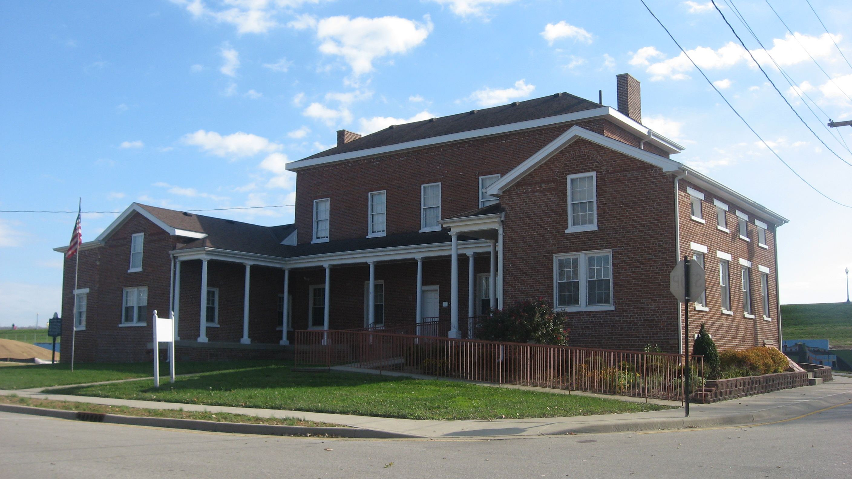 Front and western side of the Vance-Tousey House, located at 508 W. High Street in Lawrenceburg, Indiana, United States. Built in 1818, it is listed on the National Register of Historic Places.